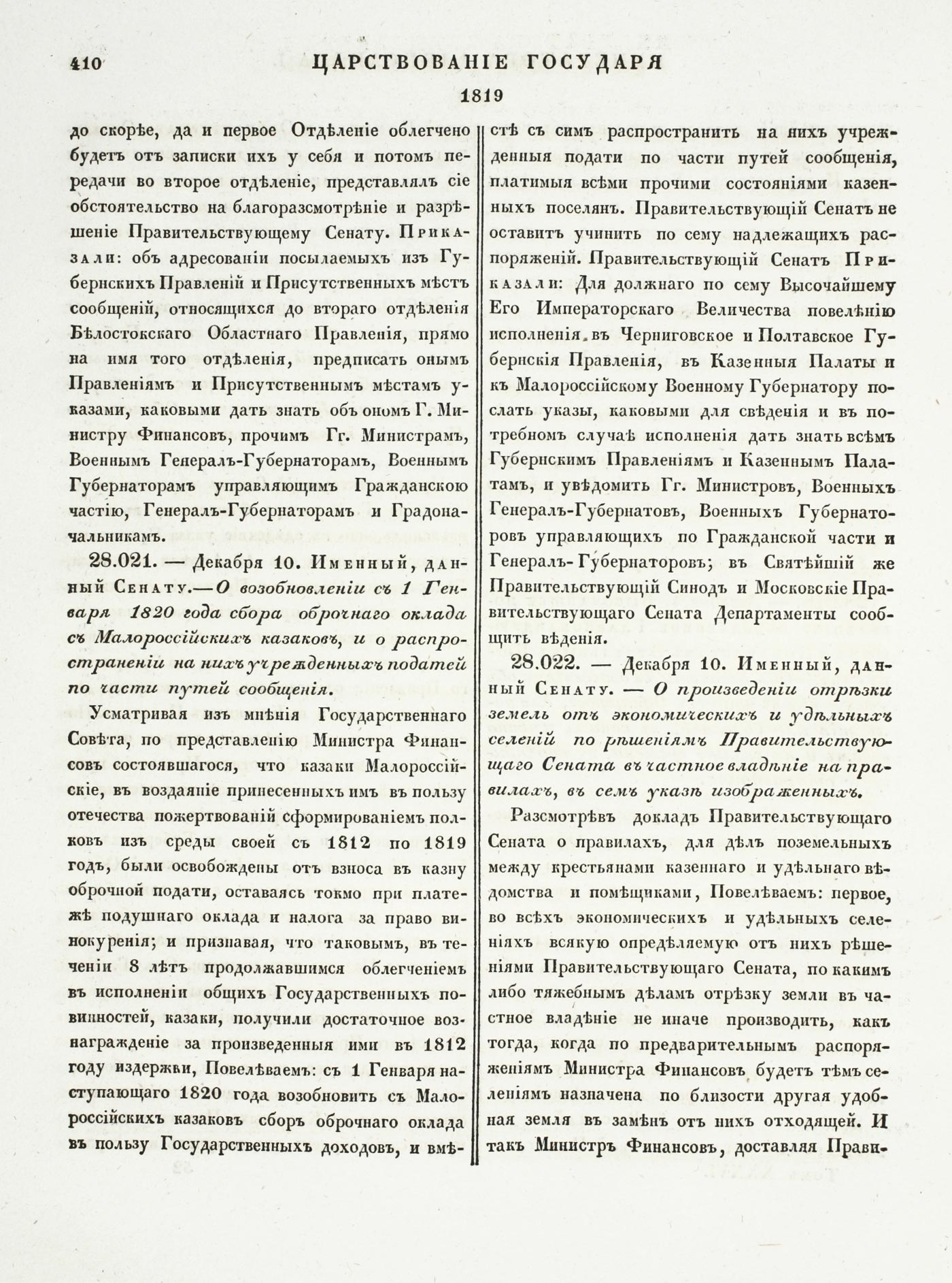 Complete Collection of Laws of the Russian Empire. Collect. 1. Т.36 nr 28021, 1819 AD